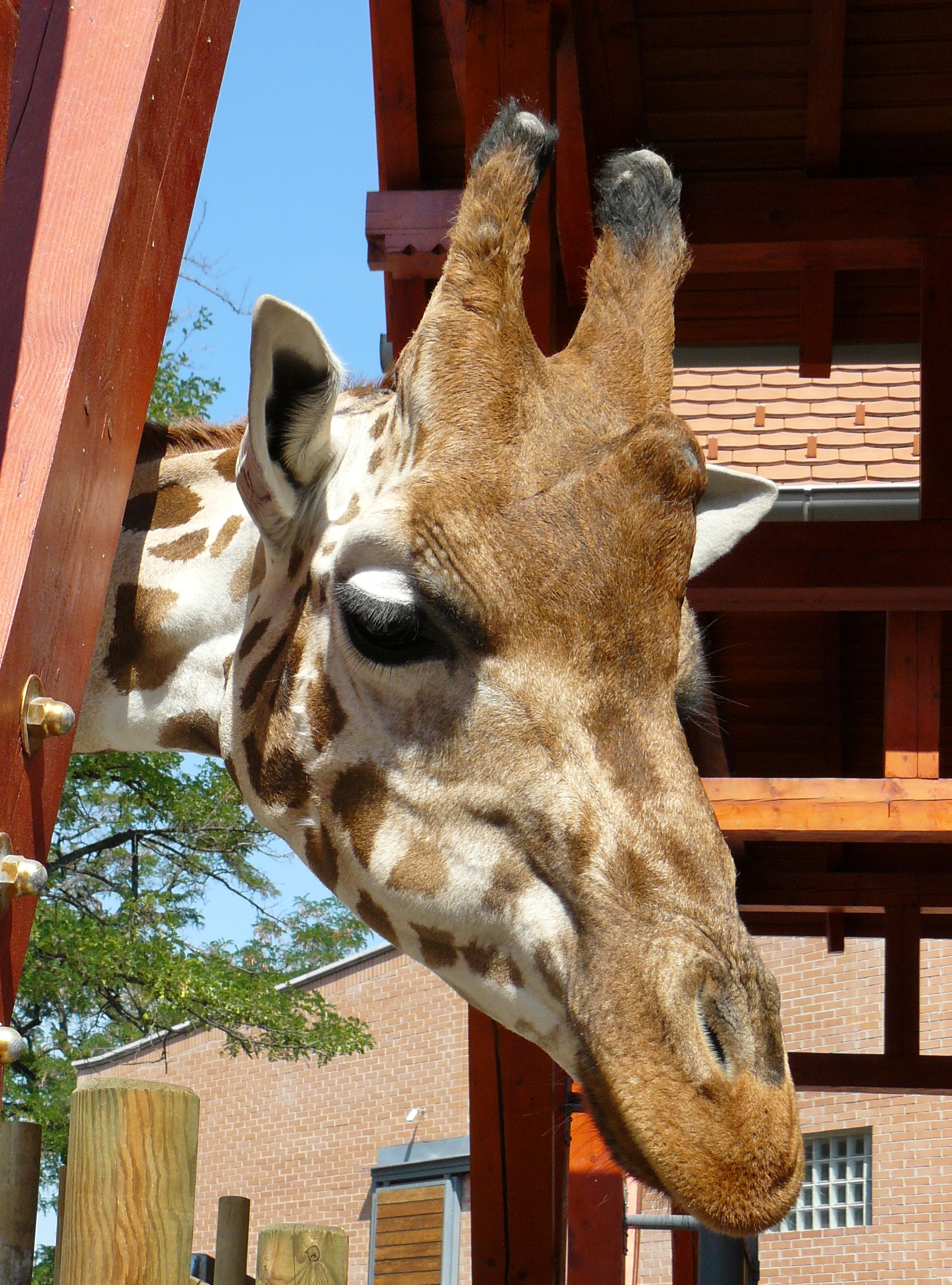 This portrait was taken in the Zoo, Budapest.